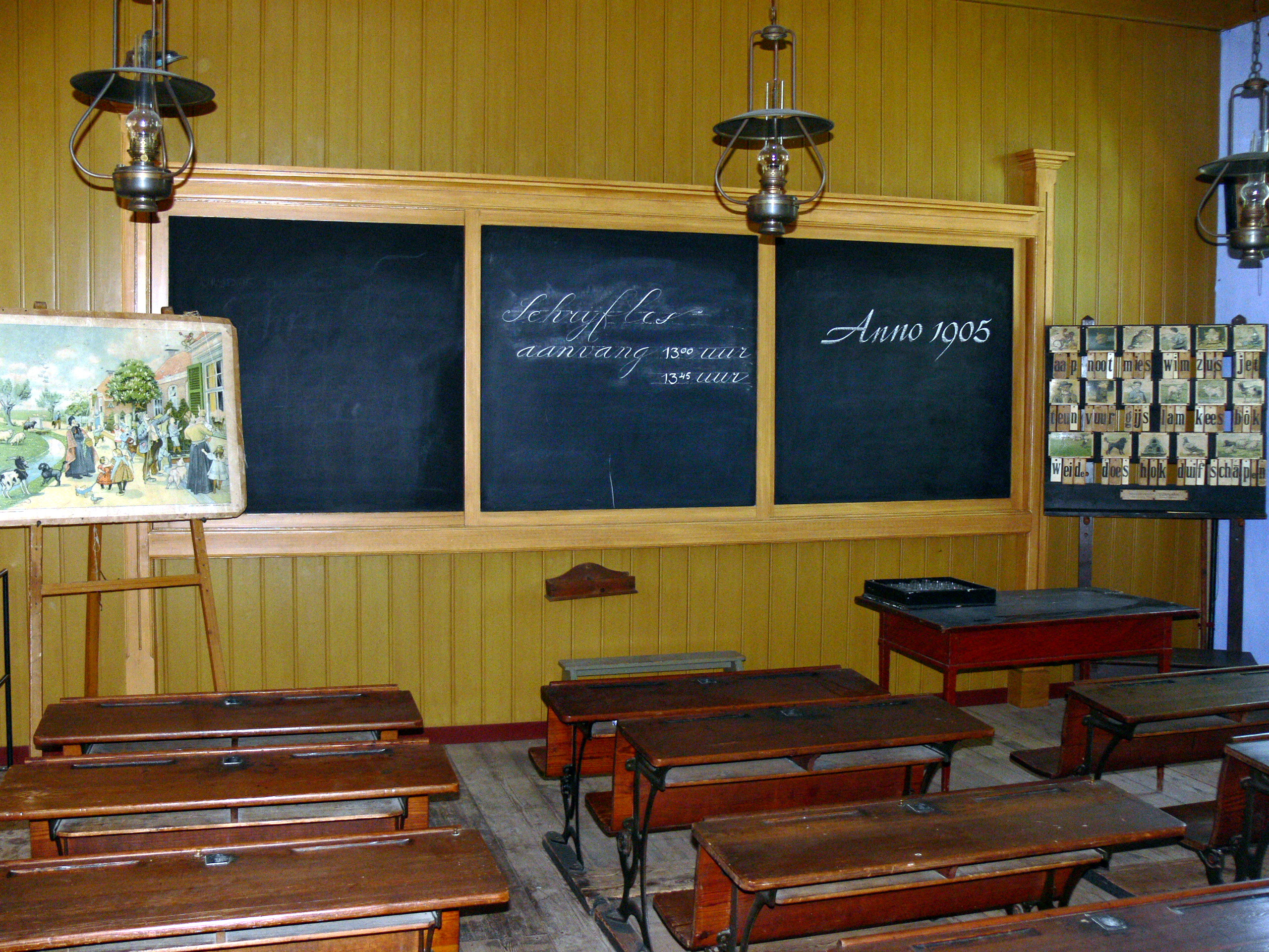 Zuiderzeemuseum. City school in 1905